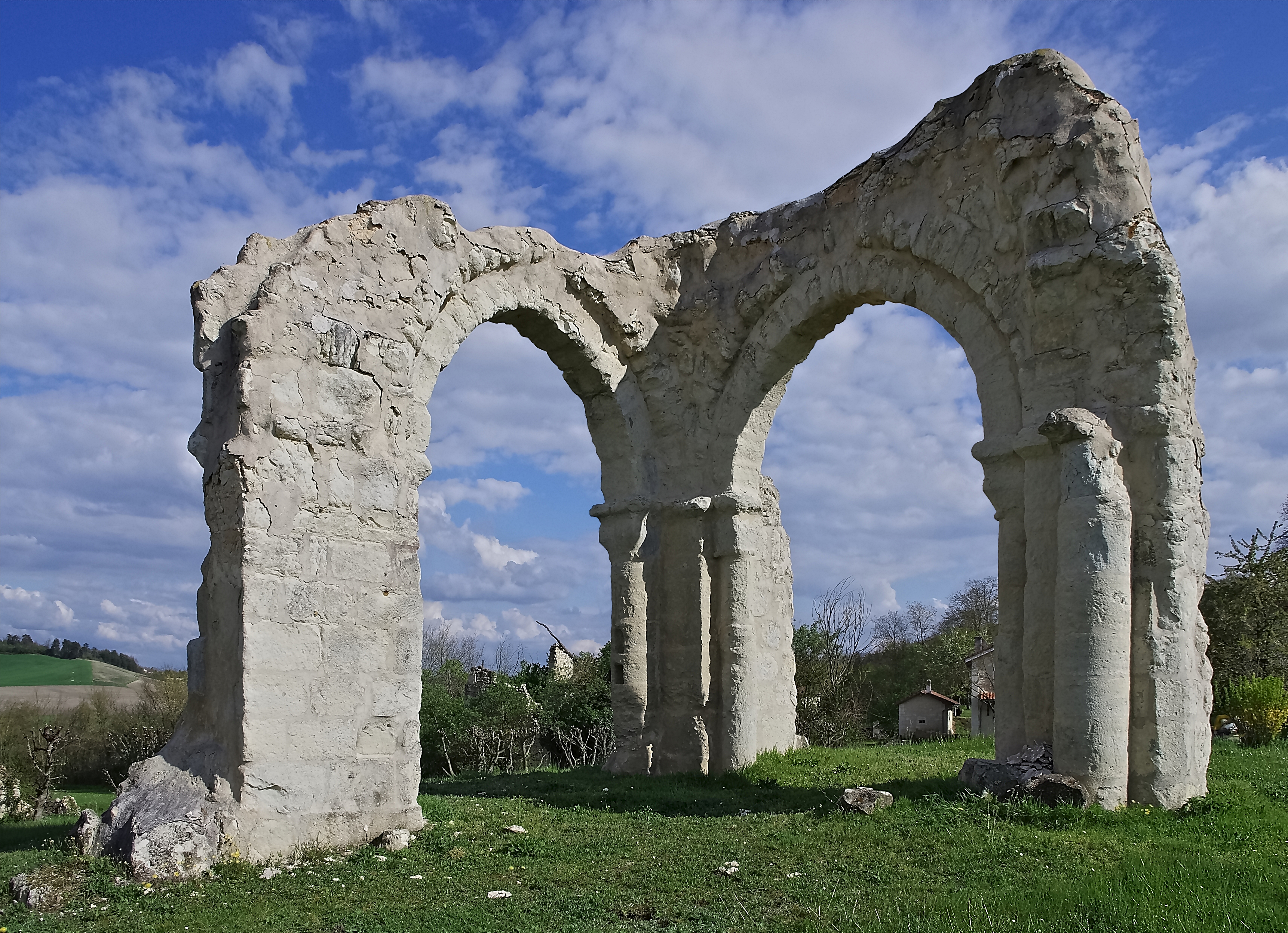 Only remains of Saint-Jean church (XIIth-XIIIth centuries). La Chapelle-Grésignac, Dordogne, France. .